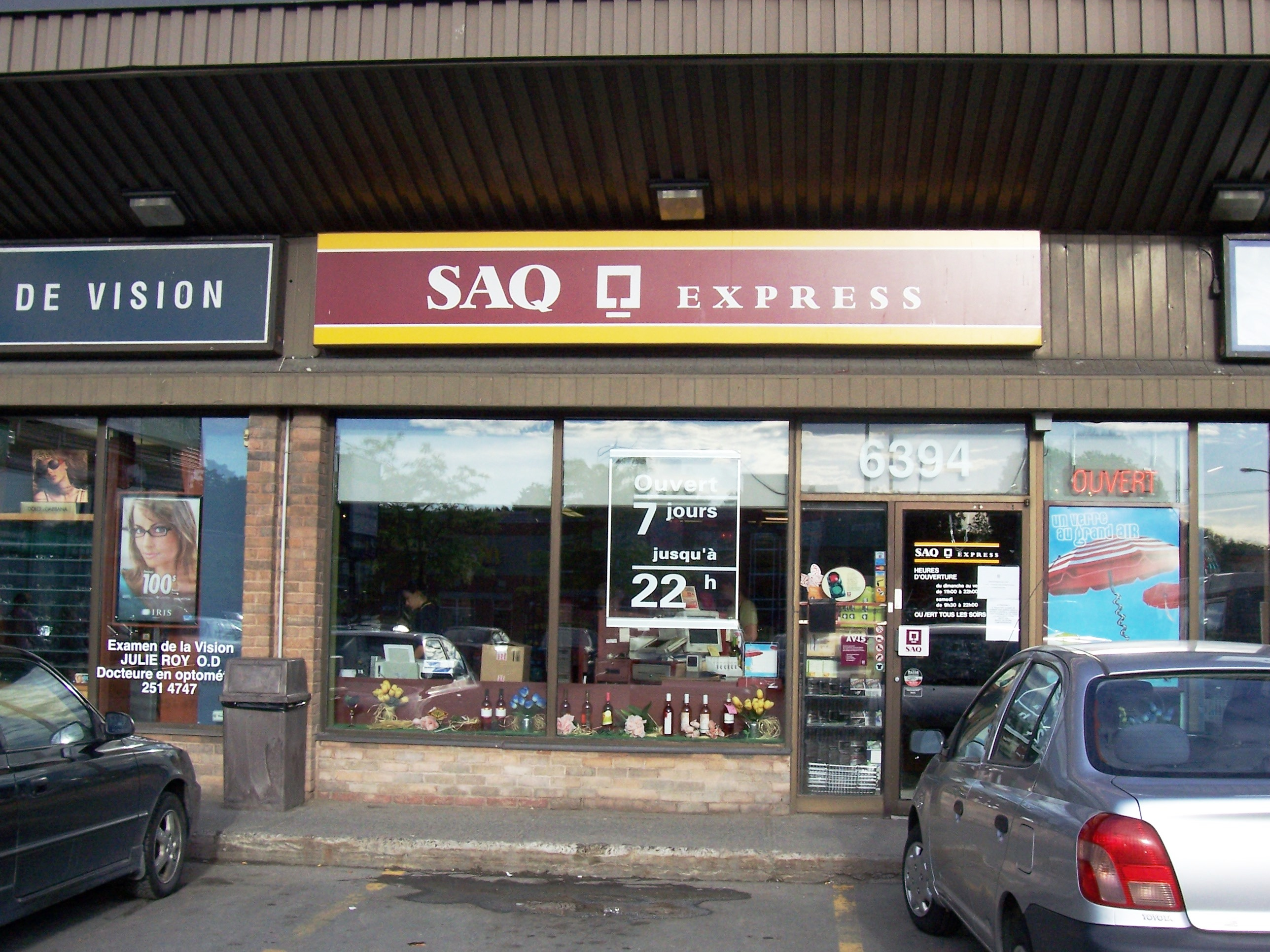 Photo of a SAQ liquor store from Montreal, Quebec, Canada.